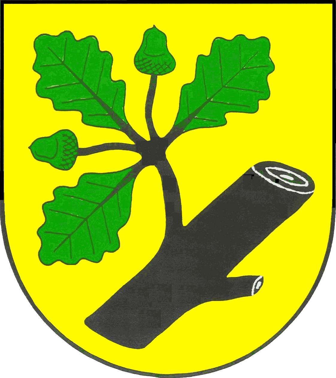 Coat of arms of the municipality Holt in Schleswig-Holstein, Germany